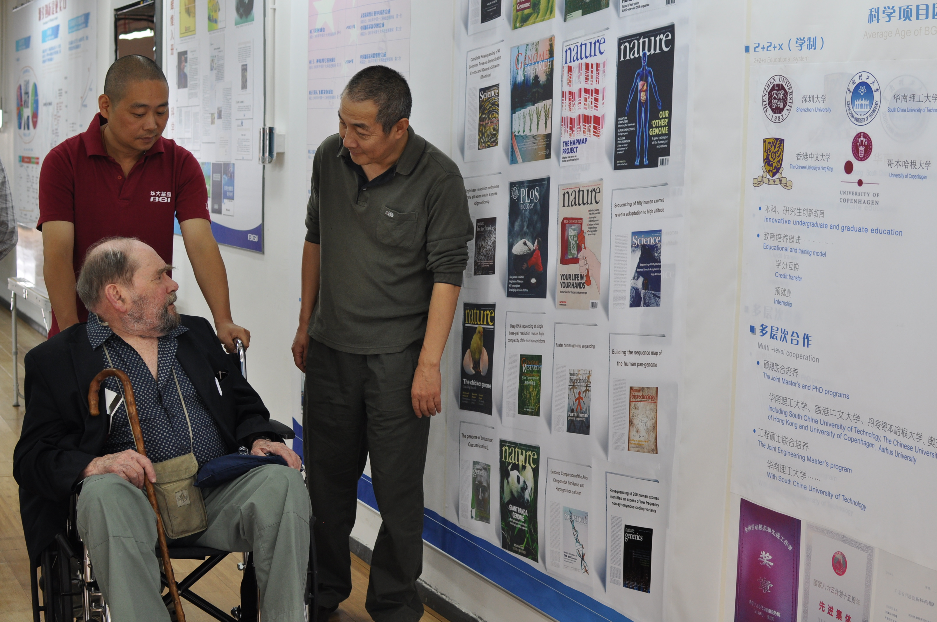 BGI Founder Wang Jian showing the late Nobel Laureate Sydney Brenner around the BGI Headquarters in Shenzhen in November 2010.